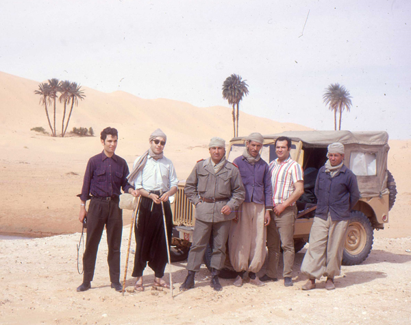 Figure 3 of the paper. Jean-Antoine Rioux in the Tunisian desert with a team of Tunis Pasteur Institute (1970).